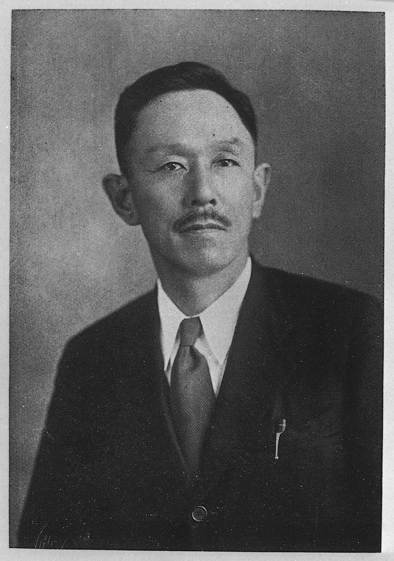 Portrait of Nakano Seigo (中野正剛, 1886 – 1943)